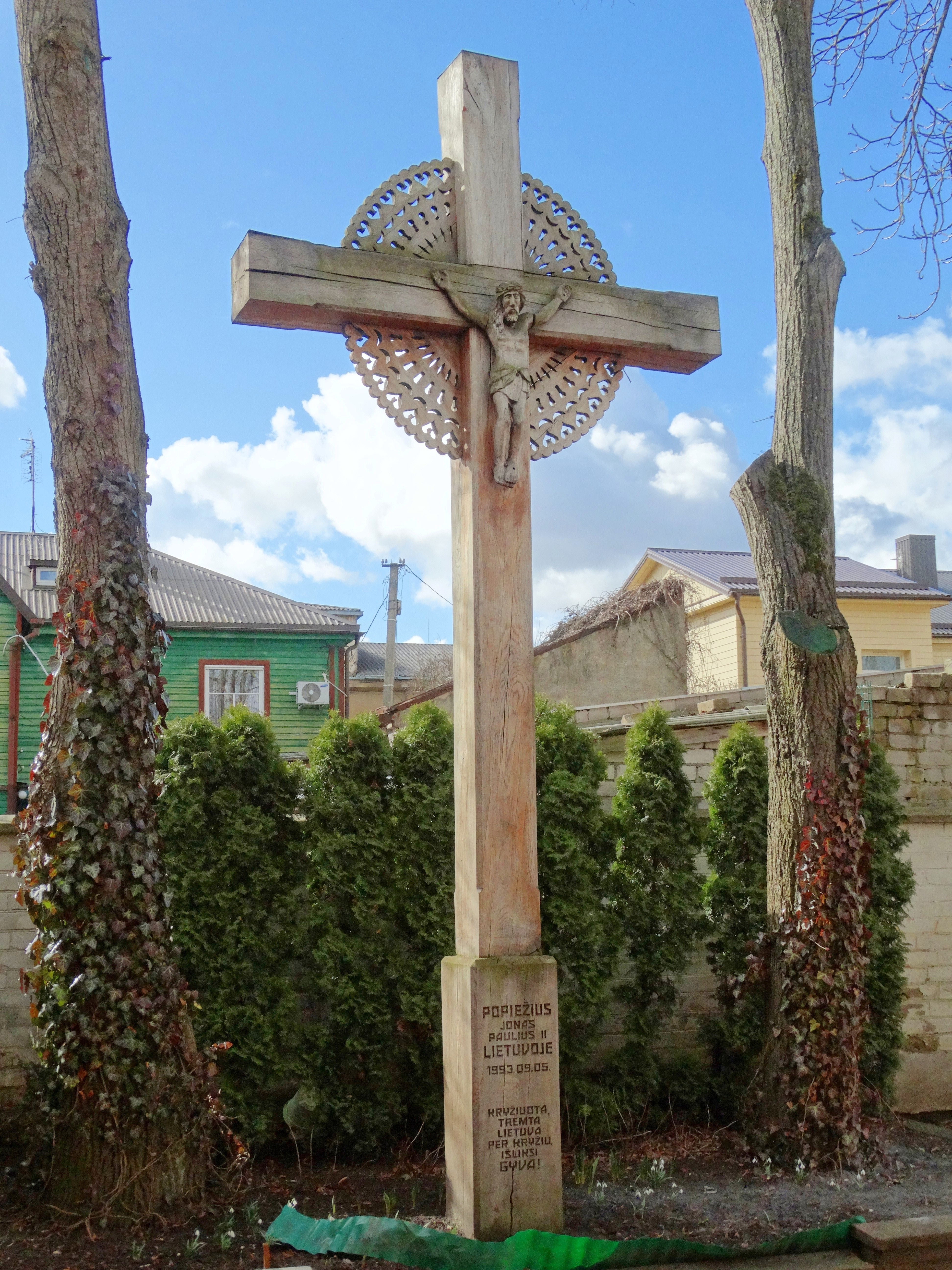 Churchyard cross, Kaunas, Lithuania